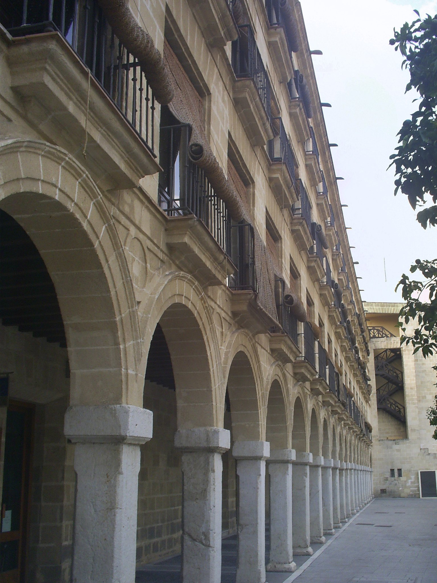 Jerez City Planning Building, place on Arenal Square, Jerez, Andalusia (Spain).